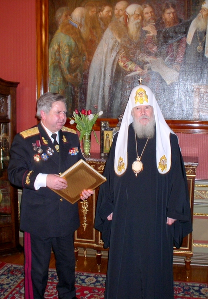 Patriarch Alexy II of Russia